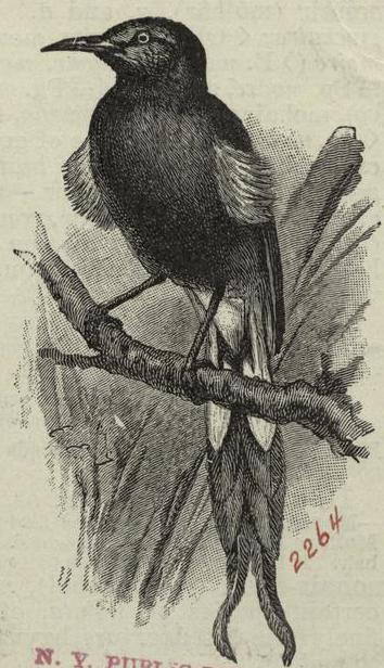 Yellow-tufted moho (Moho nobilis) from The Century dictionary and cyclopedia : with a new atlas of the world : a work of general reference in all departments of knowledge.(New York : Century, 1911). Courtesy of NYPL The New York Public Library